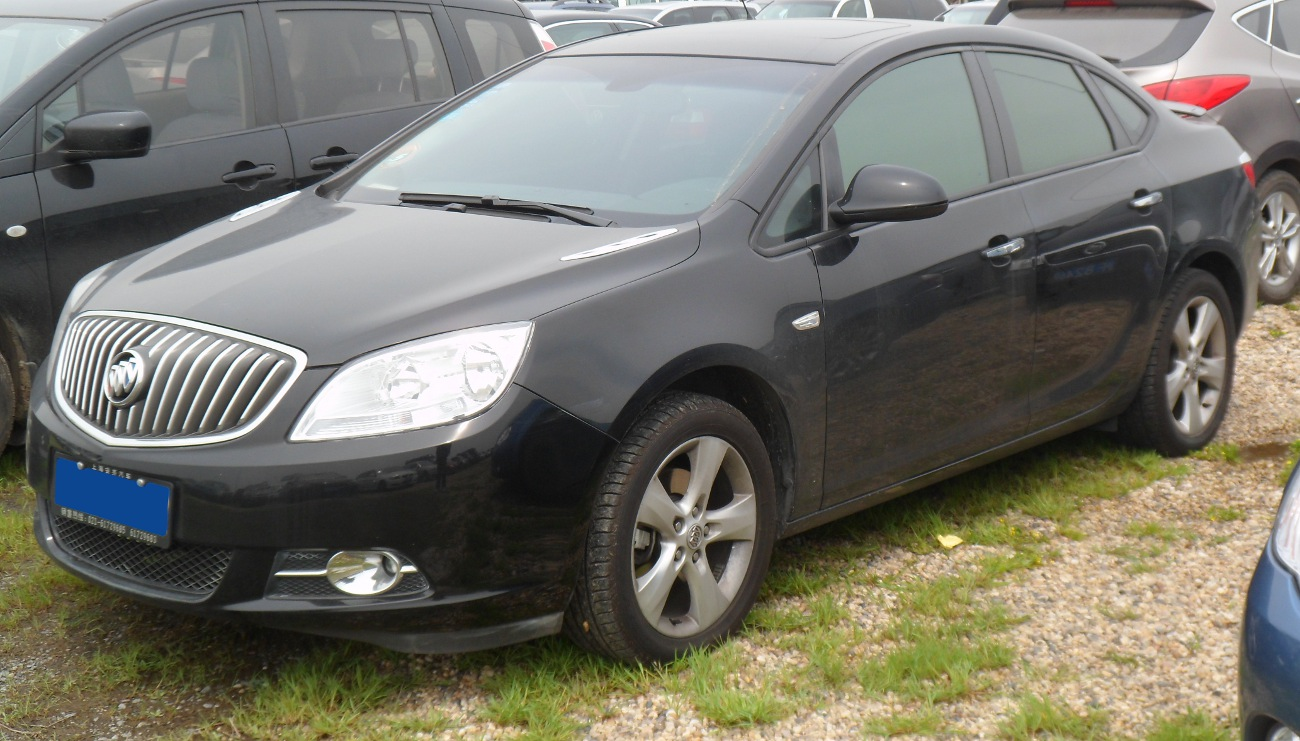 Buick Excelle GT photographed in Anting, Shanghai municipality, China.